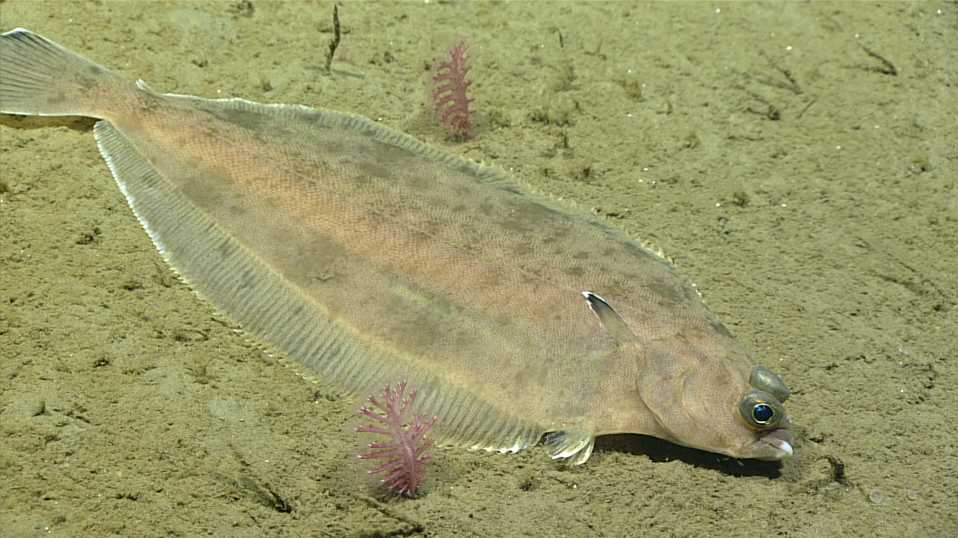 A flounder among sea pens, as seen during the third dive of Deep Connections 2019. Image courtesy of the NOAA Office of Ocean Exploration and Research, Deep Connections 2019. Learn more about the expedition: [Source: ]